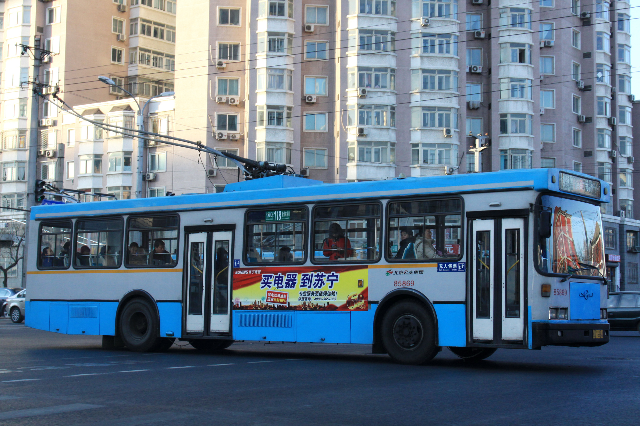 Beijing Trolley bus, China